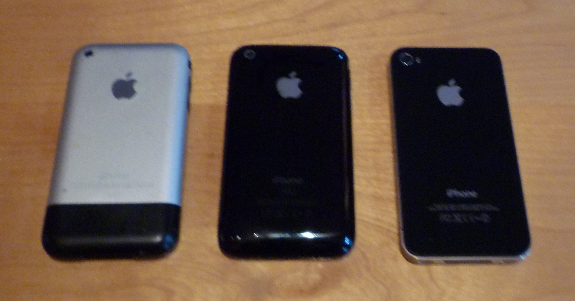 Left to right: iPhone, iPhone 3G, iPhone 4.